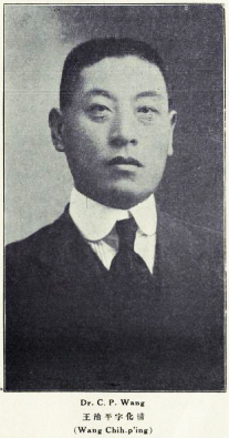 Wang Zhiping